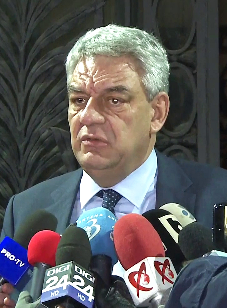 Prime Minister of Romania, Mihai Tudose, brought forward by the majority coalition led by the Social Democratic Party announces his resignation as PM due to a motion of no confidence adopted in his own party's National Executive Committee.